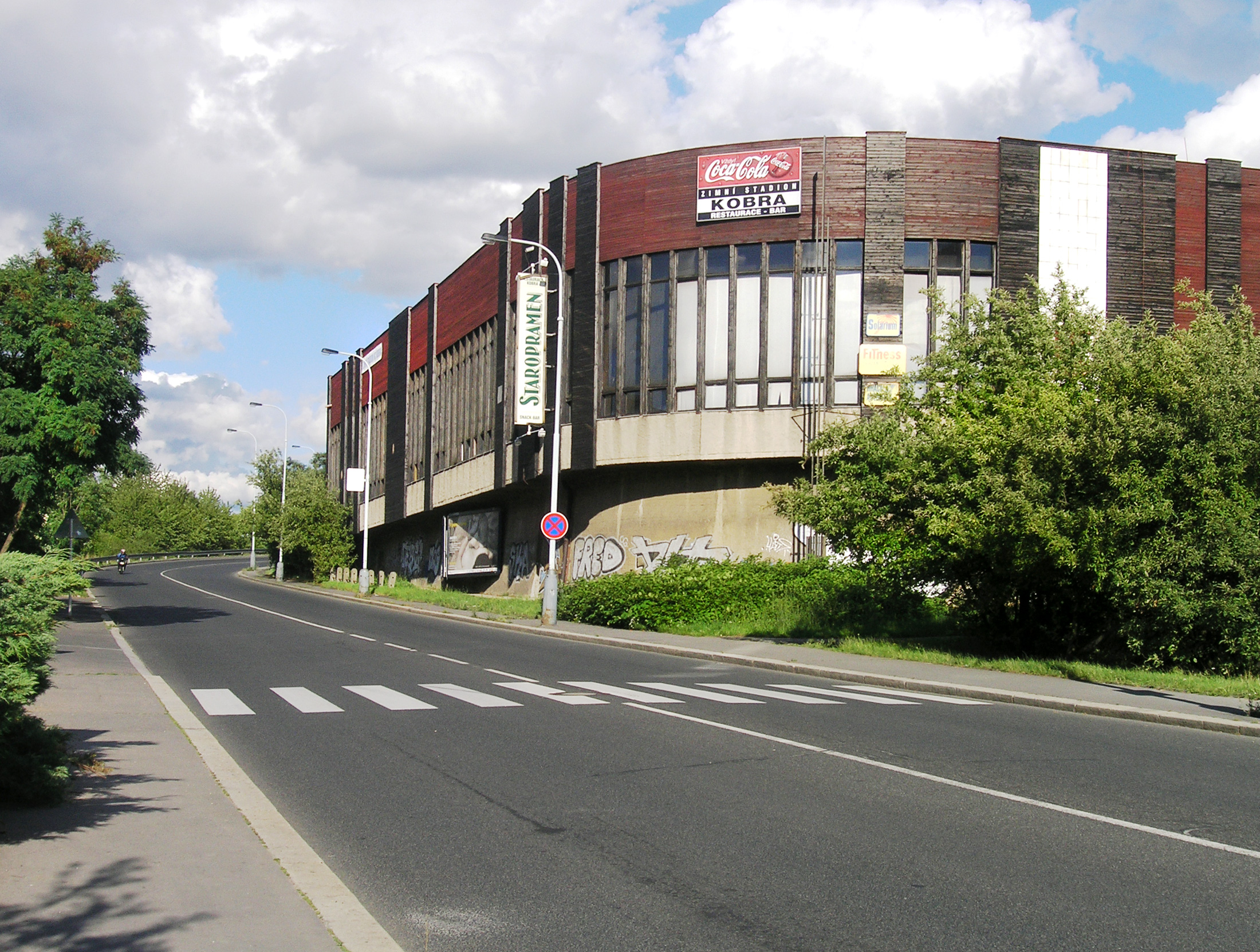 Ice hockey stadium at Vrbova street at Braník, Prague